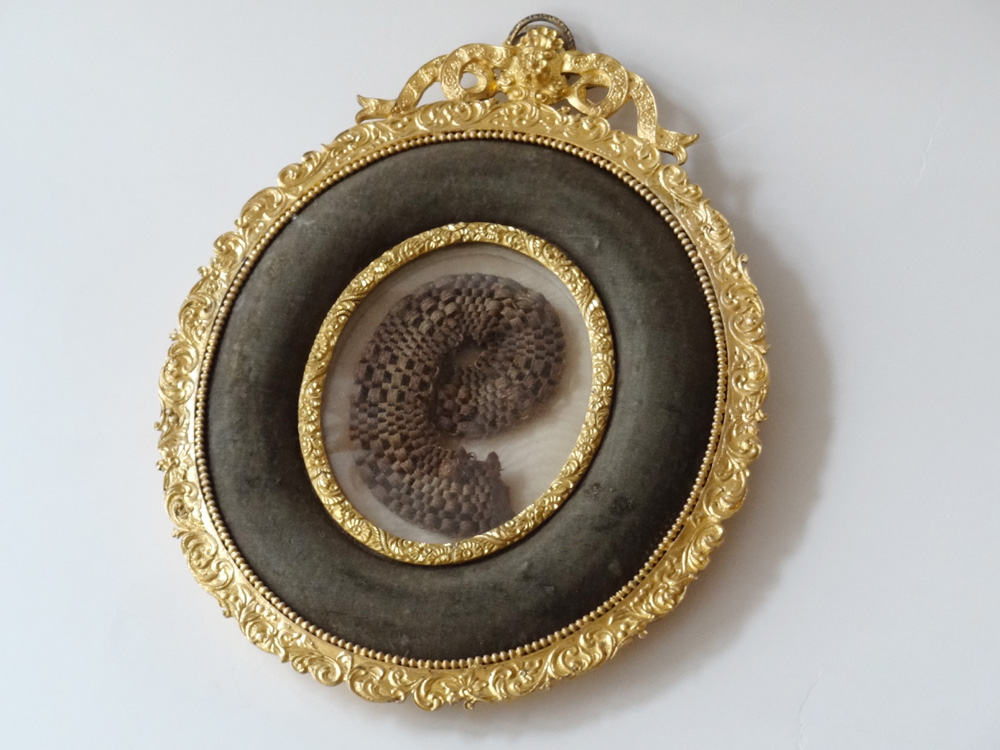 Hair of king Louis XVI and Marie Antoinette, at the museum Raffael Pagès, in Barcelona